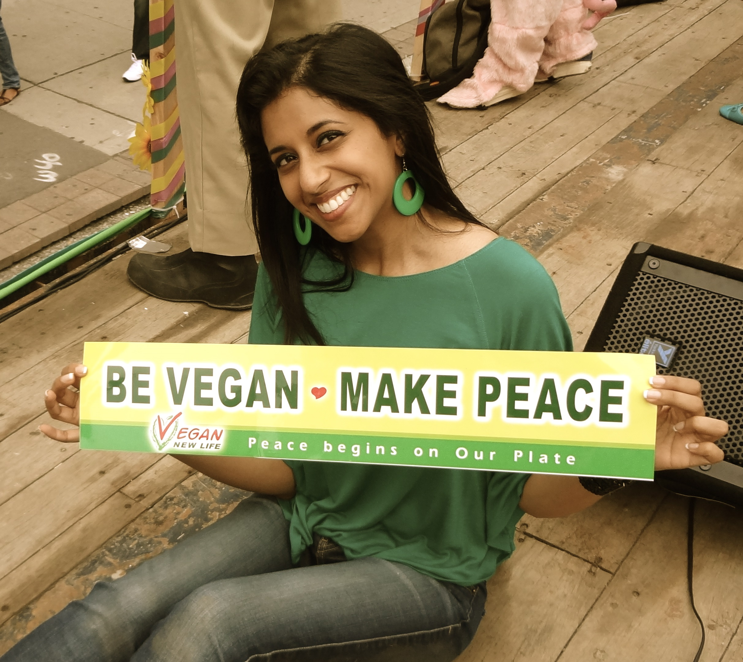 Stephanie Braganza at Toronto Veggie Pride Parade 2013